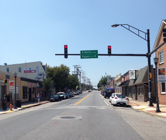 Downtown Catonsville at the intersection of Frederick Road/Mellor Avenue/Egges Lane